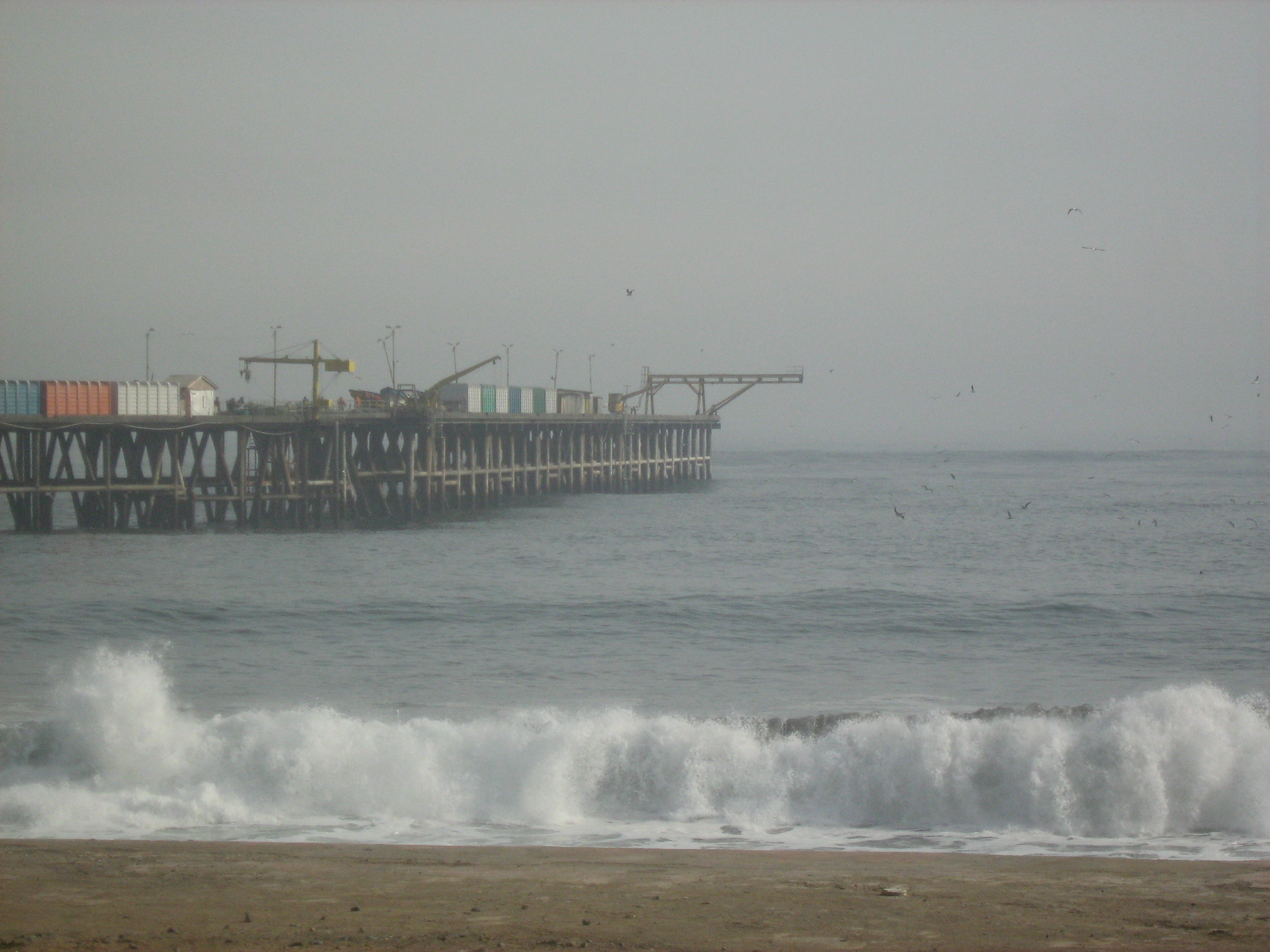 Port of Constitucion, Chile